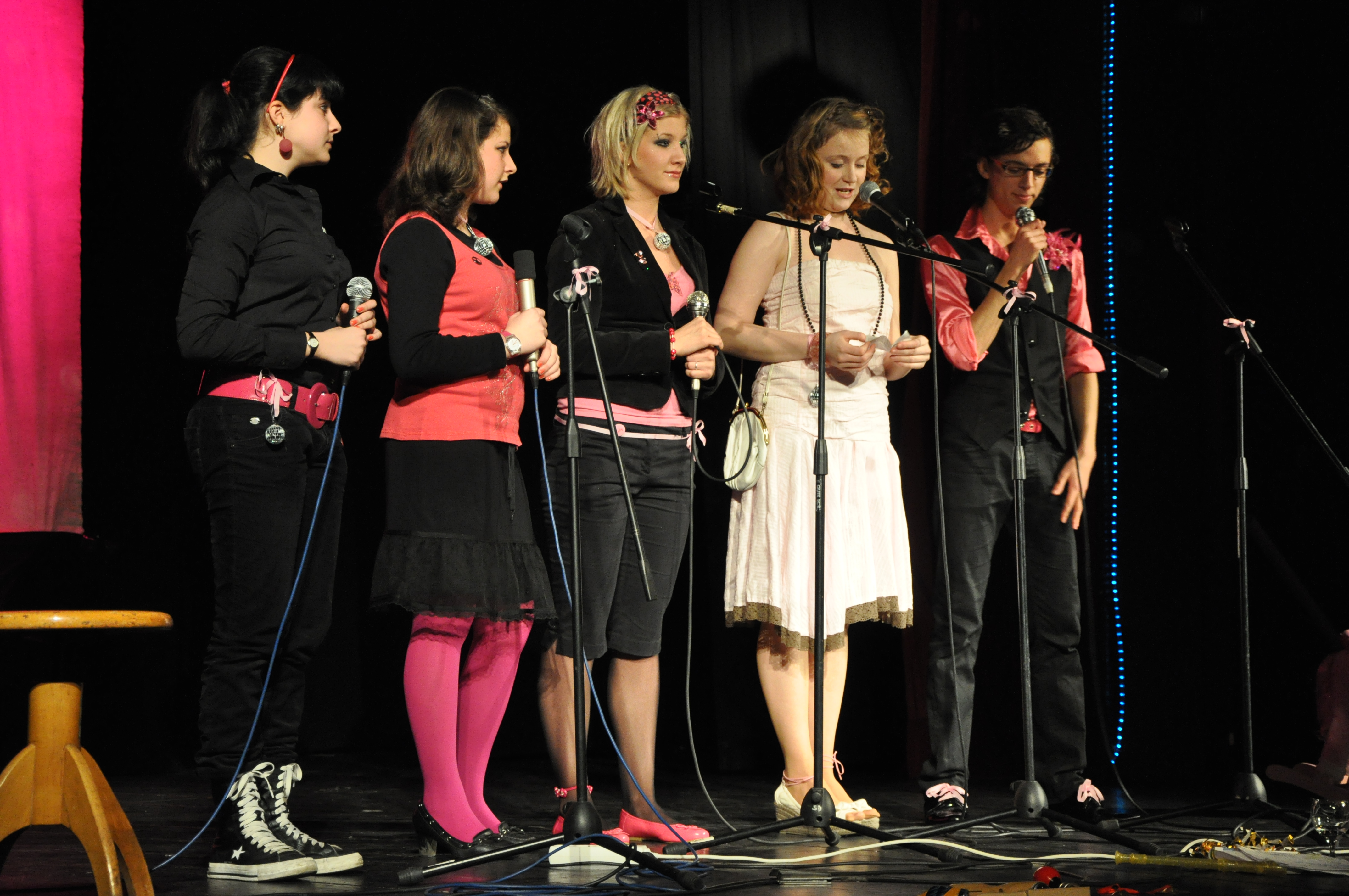 Music group Olats otesoc